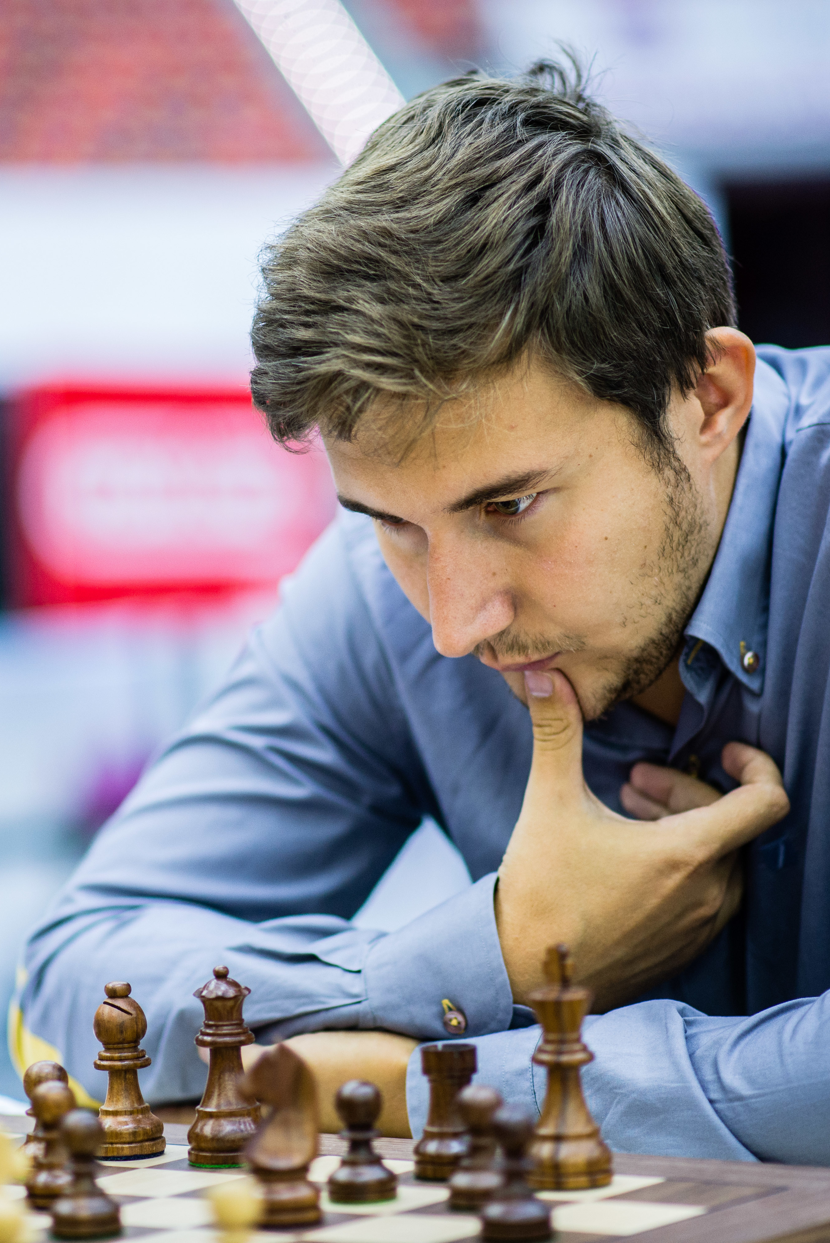 Karjakin Sergey